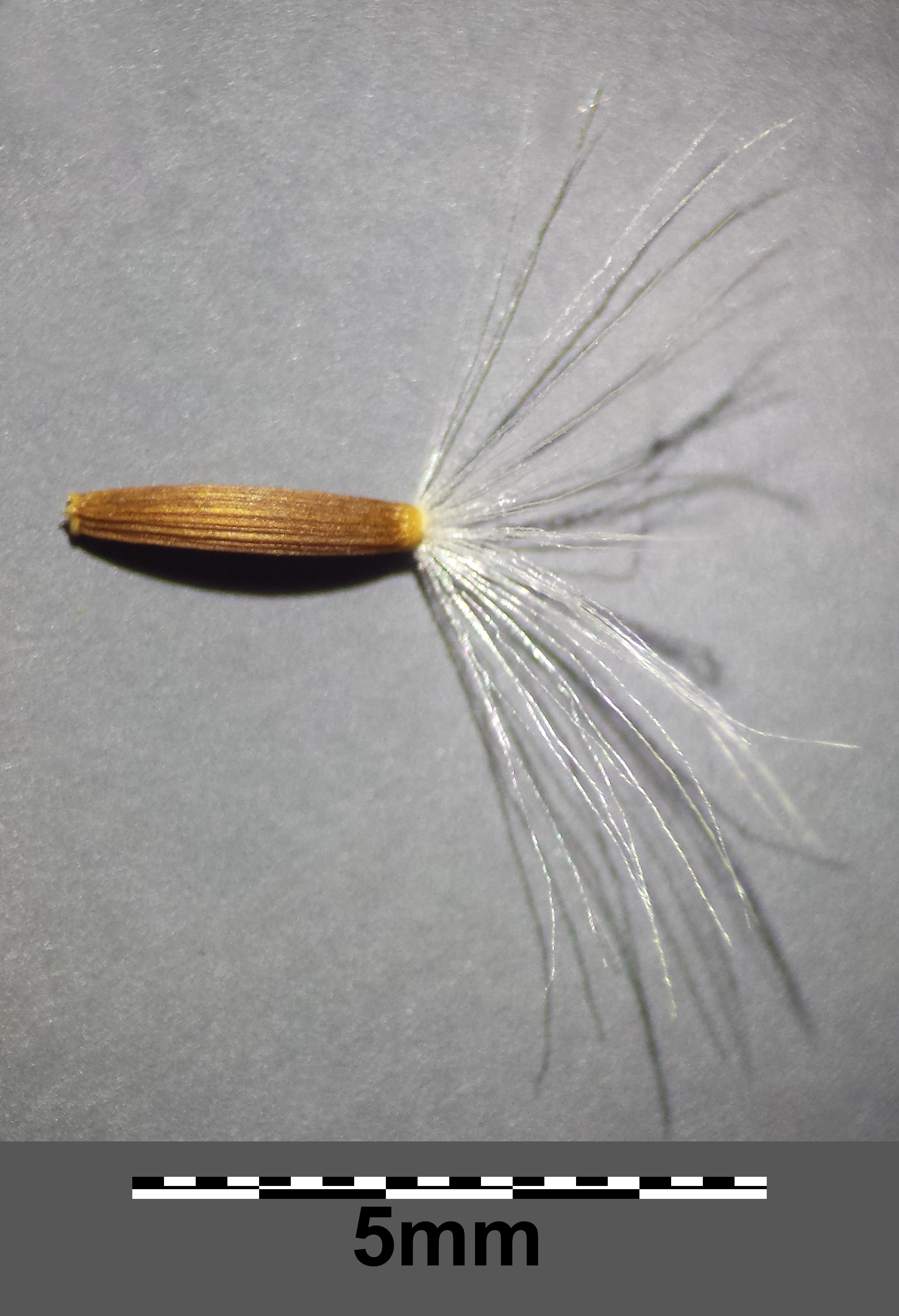 Achene with pappus Taxonym: Crepis praemorsa ss Fischer et al. EfÖLS 2008 ISBN 978-3-85474-187-9 Location: semi-dry grassland to the Northeast of Herzogbirbaum, district Korneuburg, Lower Austria - ca. 250 m a.s.l. Habitat: semi-dry grassland